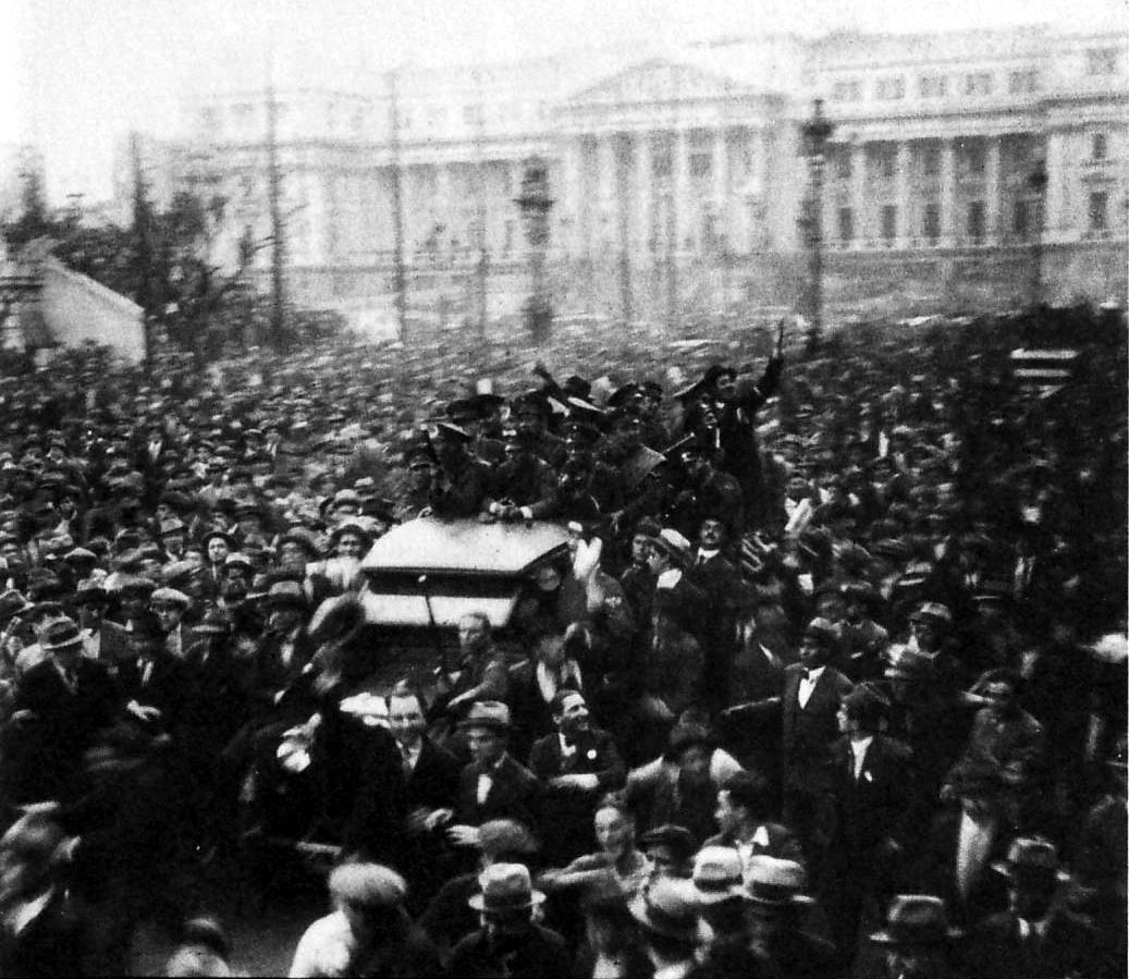 Crowds near the Argentine National Congress during the 1930 Argentine coup d'etat.